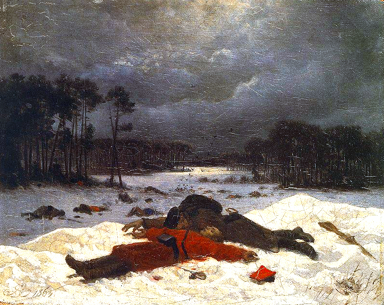 Reconciliation